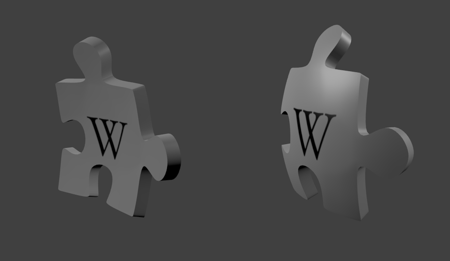 Simple render showing the morph deformation of an arbitrary object. Made in Blender.